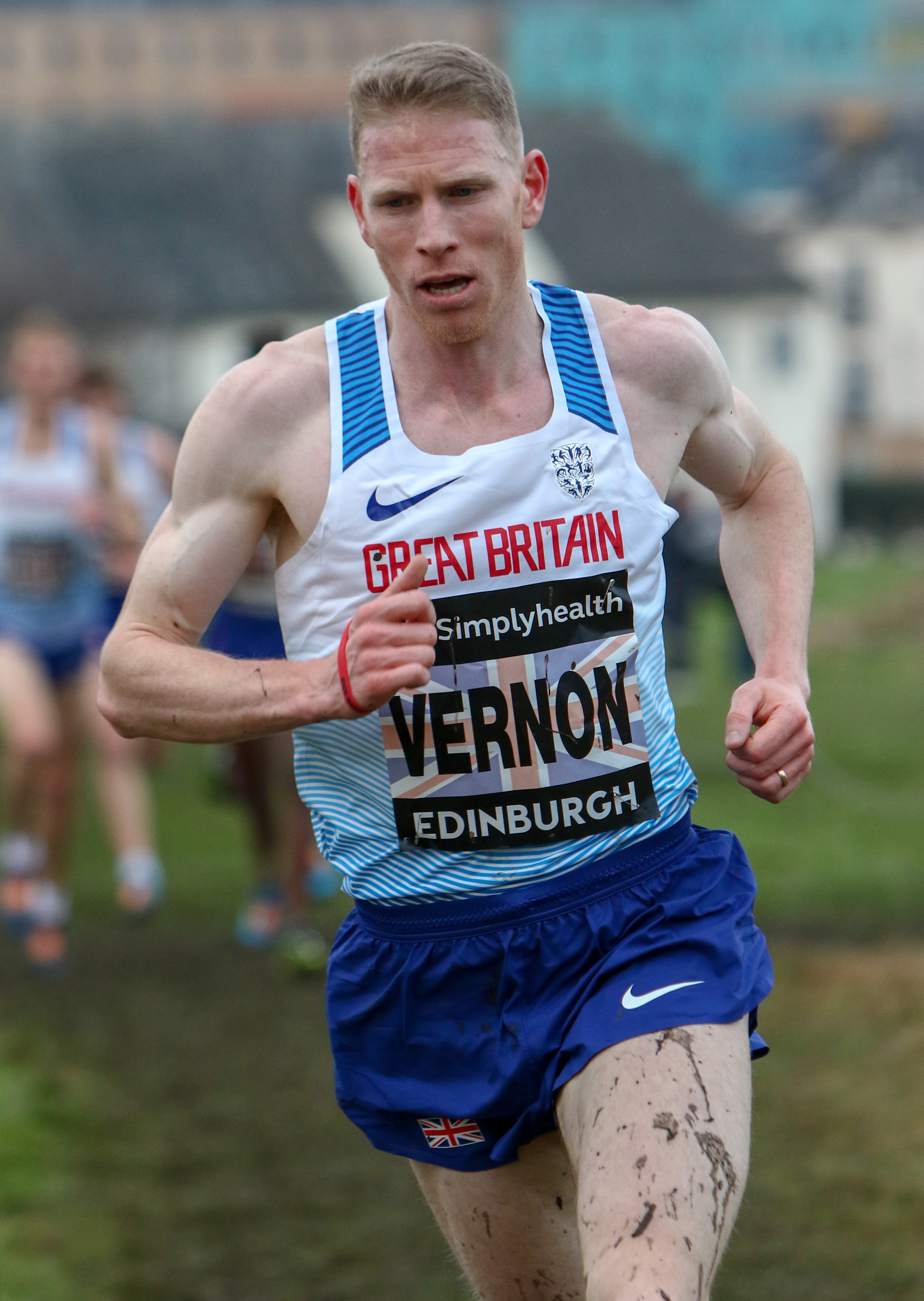 Great Edinburgh International Cross Country 2018 – Senior Men's 8km